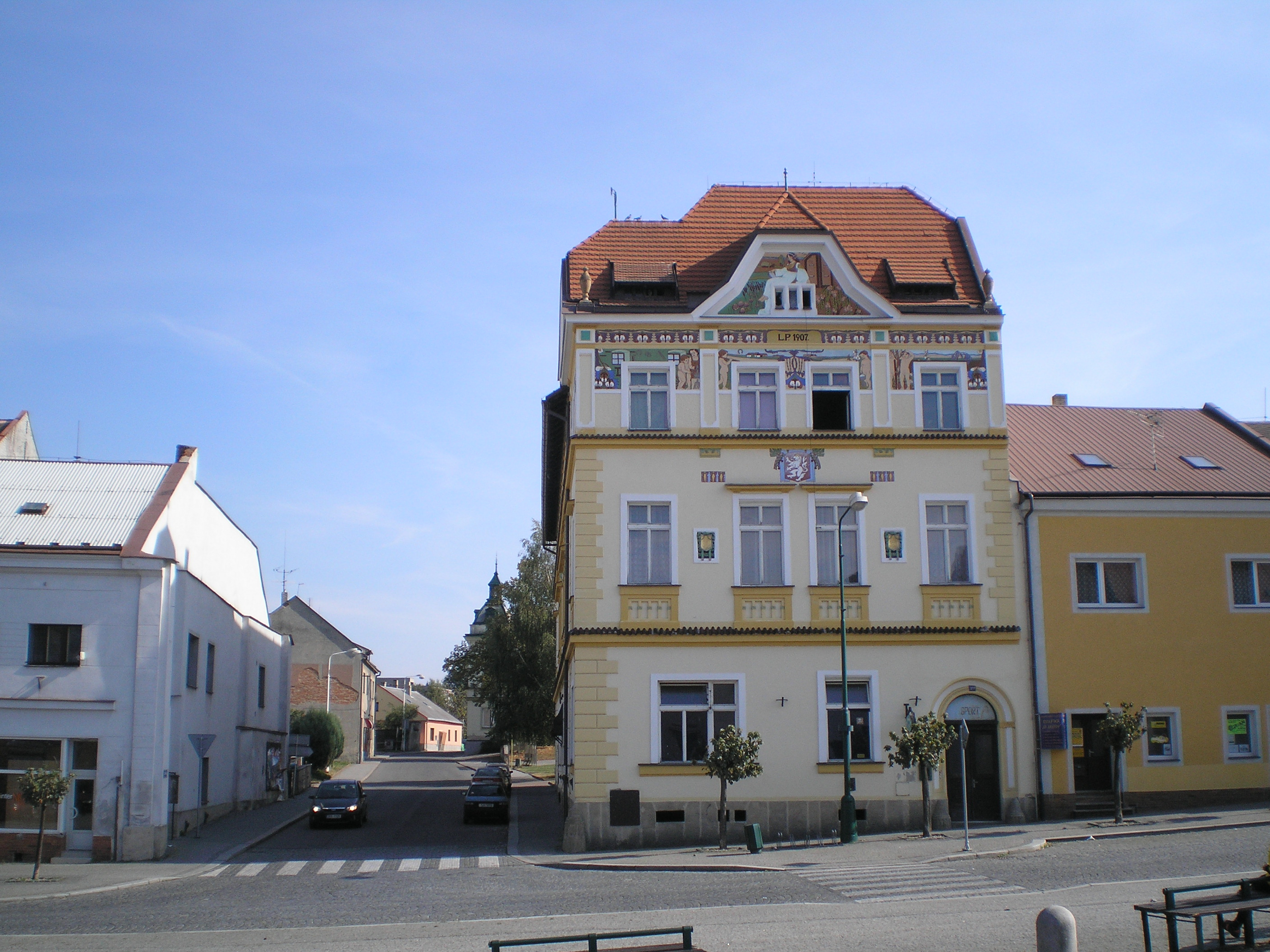 Region house in Skuteč